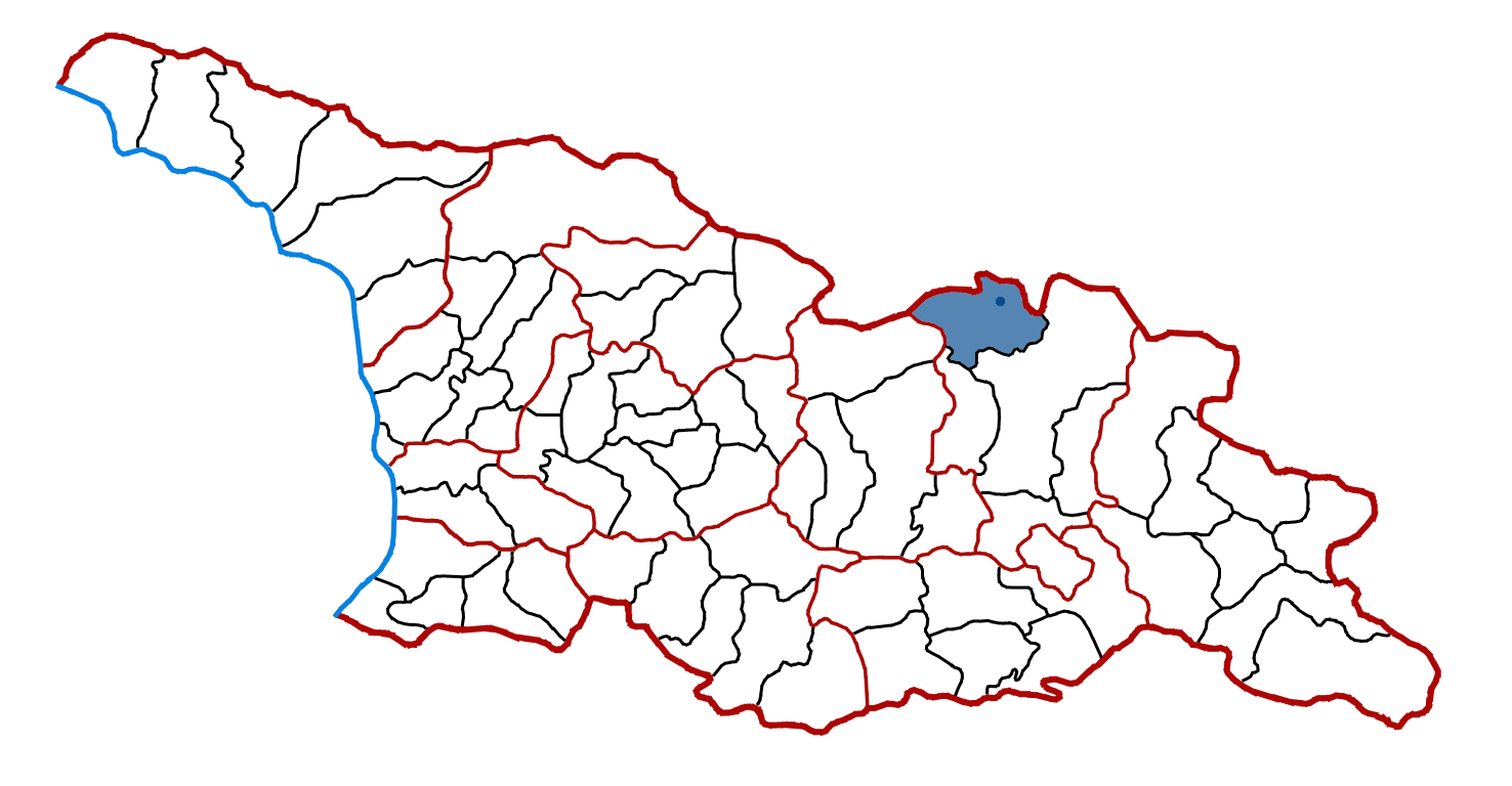 Location of Qazbegi district in Georgia